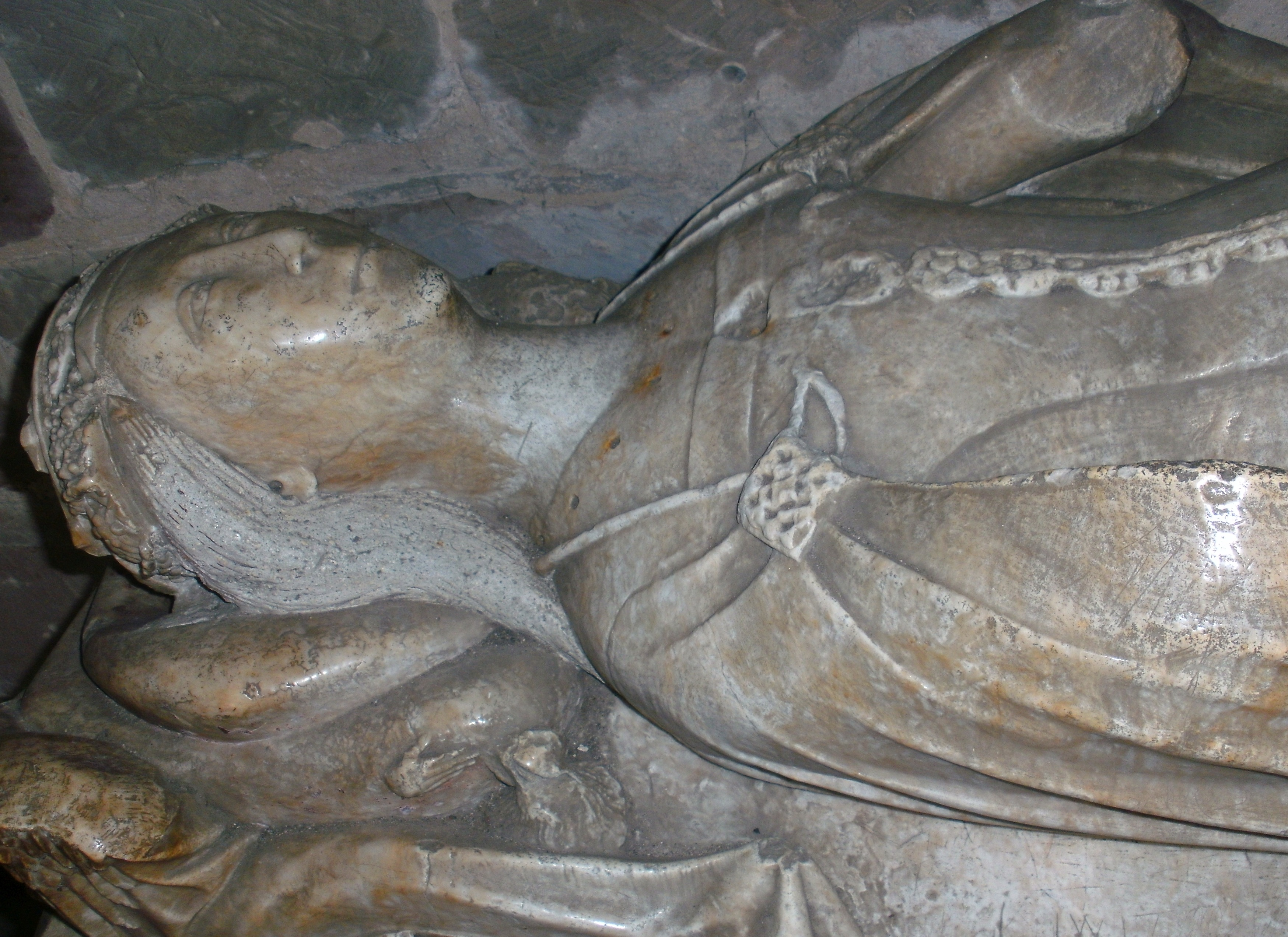 Effigy of Lady Elizabeth Talbot (née Greystoke, died 1490), first wife of Sir Gilbert Talbot of Grafton, KG (died 1517/18), on her tomb in St John the Baptist Church, Bromsgrove